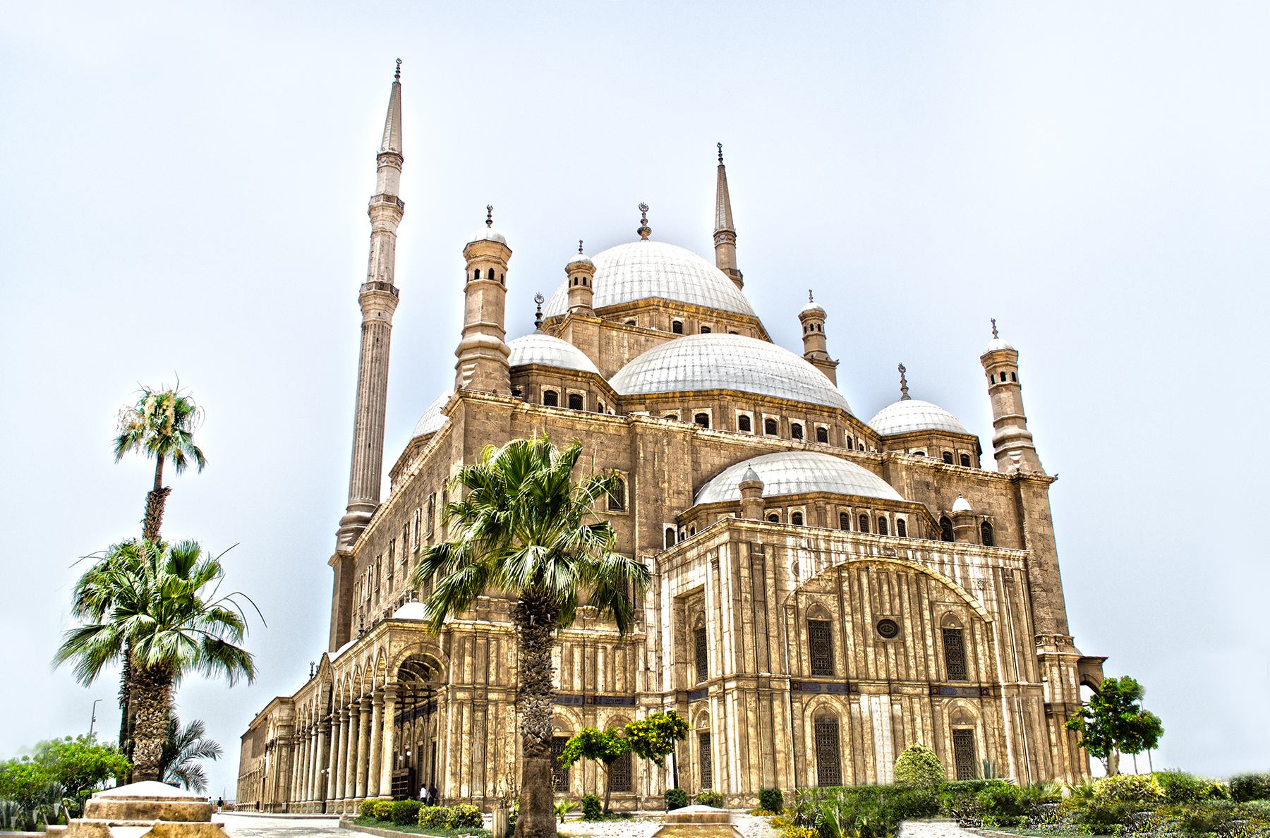 Mohamed Ali Mosque